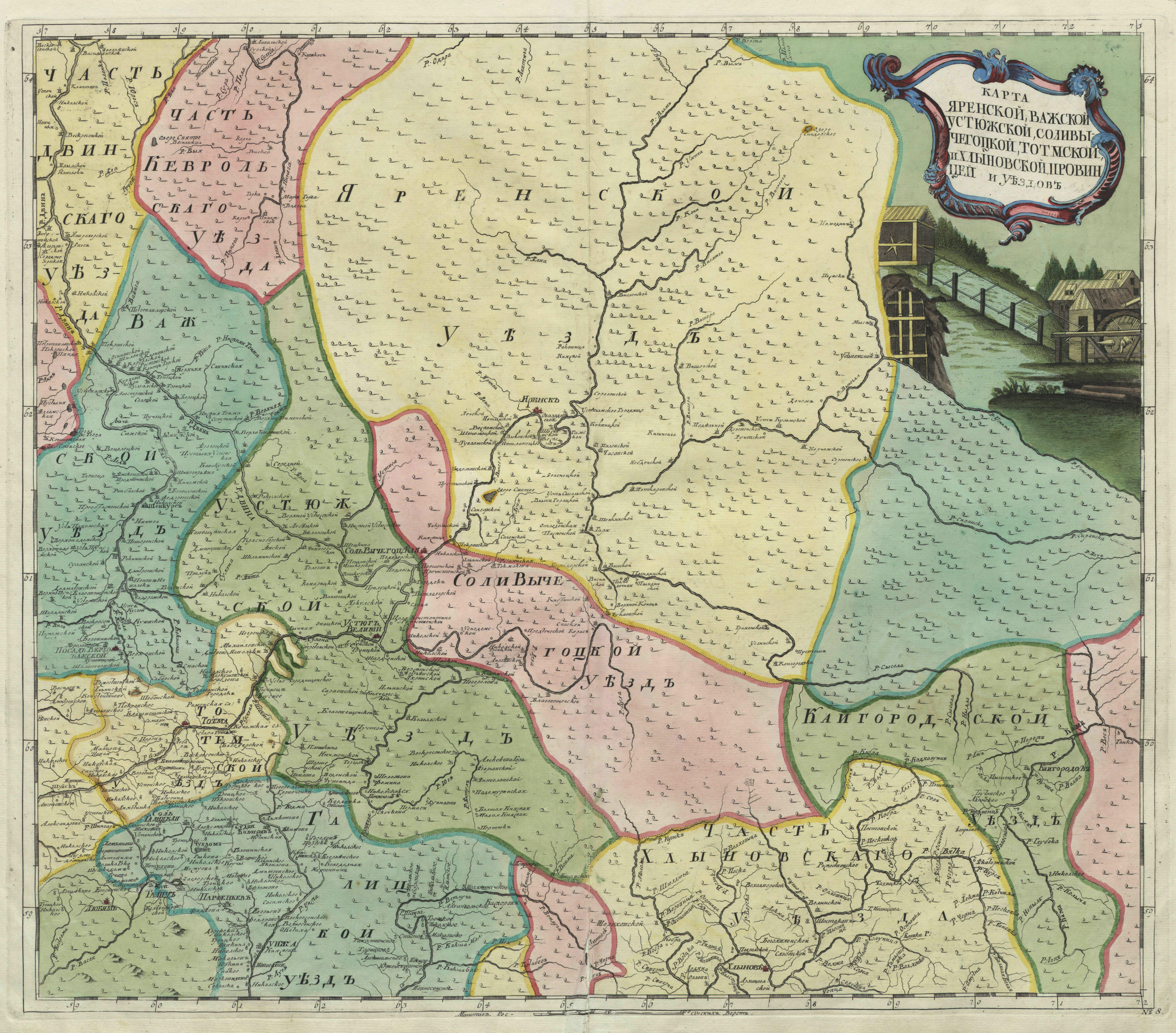 First official geographic atlas of the Russian Empire (1745). Map of Yarenskaya, Ustyuzhskaya, Soli-Vychegodskaya, Tot'mskaya and Hlynovskaya provinces and nearest uyezds. Hand-coloured copper engraving.